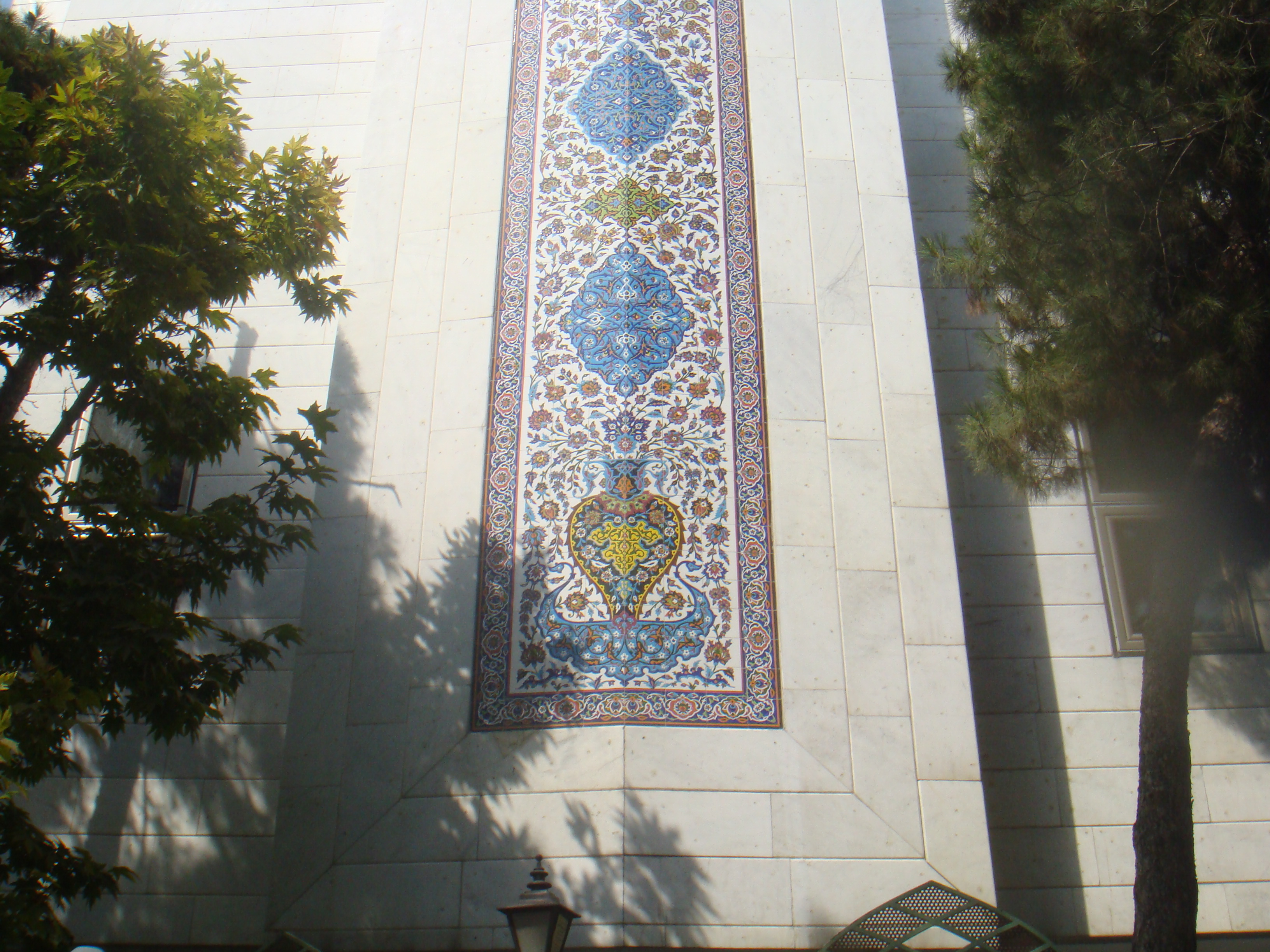 Mosque wall near Saee Park, Tehran